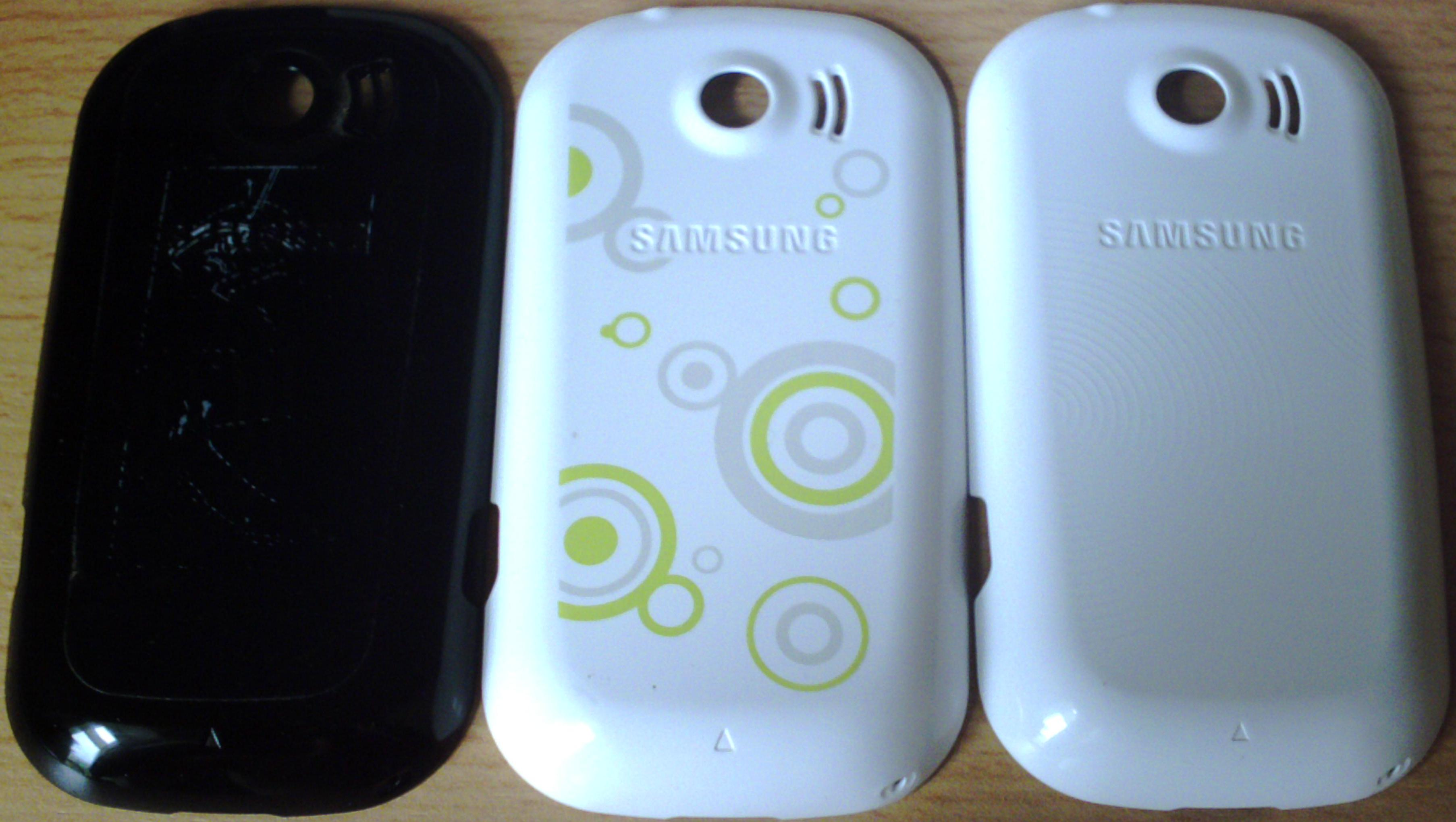 A back of a mobile phone Samsung GT-B5310 Corby PRO.